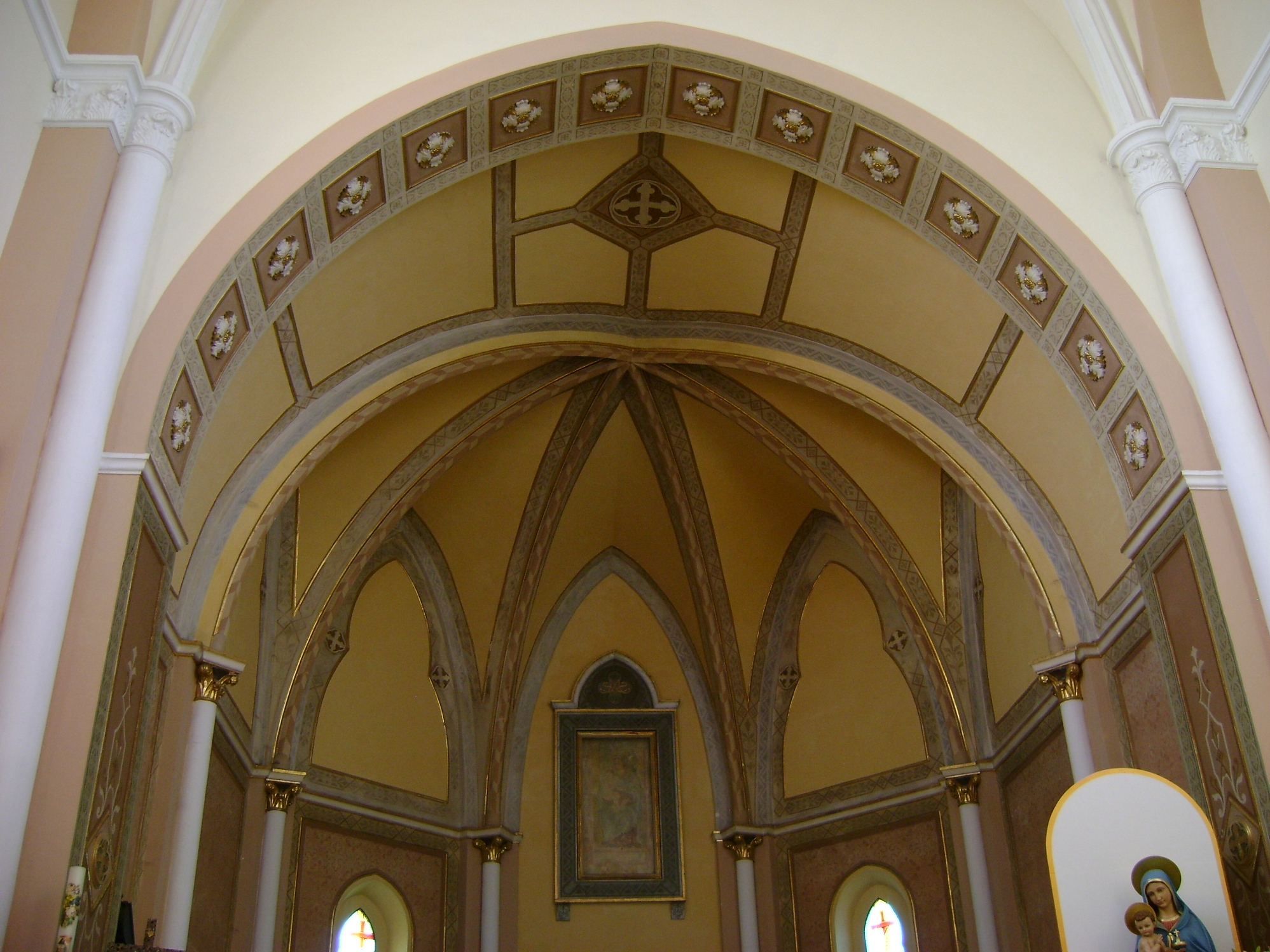 The vault of the apse of the church of Most Holy Mary of Assumption, Sant'Eusanio del Sangro, province of Chieti, Abruzzo